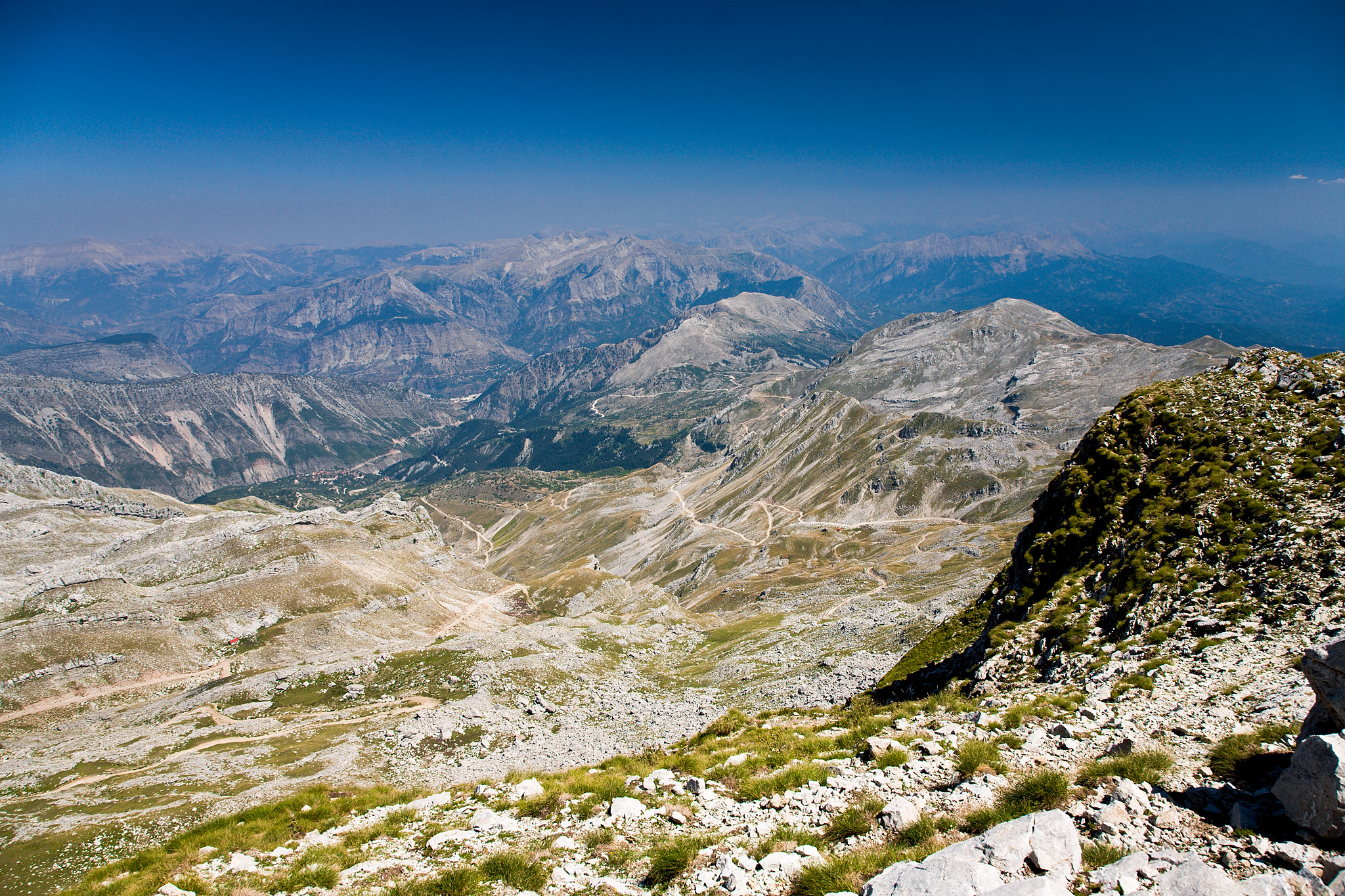 Parts of Southern Pindus mountain in Greece. Picture taken from the Katafidi summit in Tsoumerka.